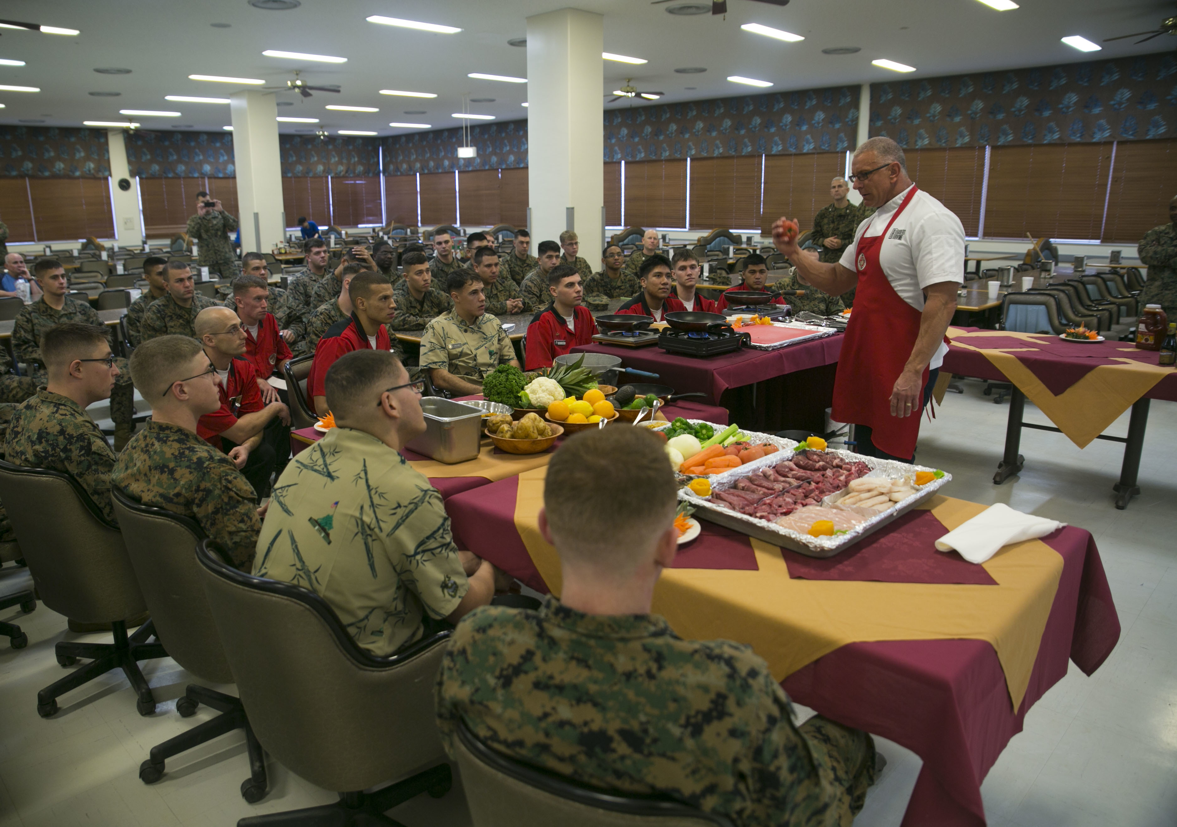 Chef Robert Irvine shows food service Marines with 4th Marine Regiment how to pre-cook vegetables Jan. 7 on Camp Schwab using a technique called blanching. Blanching is boiling vegetables and then plunging them into ice water before using them in a recipe. Blanching is used to whiten vegetables or partly or fully cook them. Irvine, an English celebrity chef and star of TV show, “Restaurant: Impossible,” came to Camp Schwab to cook with Marines attached to 4th Marine Regiment, 3rd Marine Division, III Marine Expeditionary Force. (U.S. Marine Corps photo by Lance Cpl. William Hester/ Released)